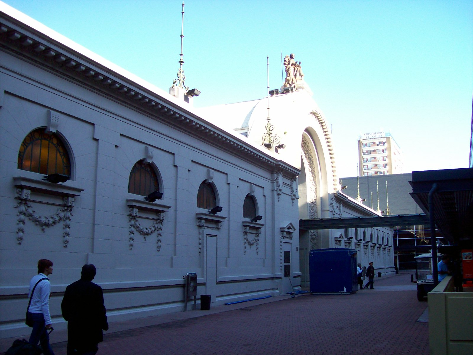 Main entrance to the Argentine Rural Society pavilion, designed by Italian architect Salvatore Mirate and built between 1906 and 1910. Palermo, Buenos Aires.